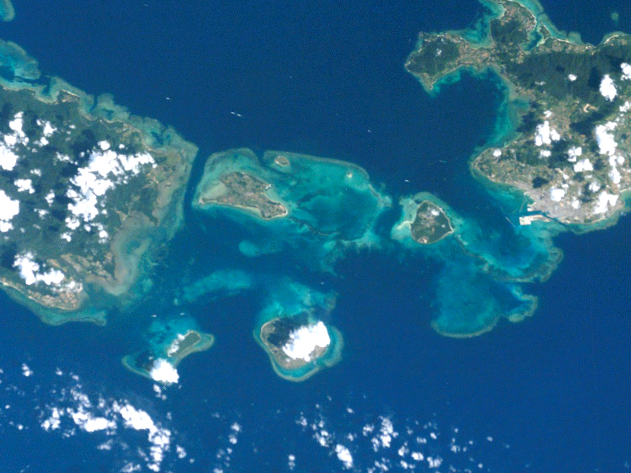 Sekisei Lagoon, Yaeyama Islands in Okinawa, Japan